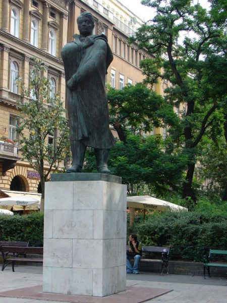 Endre Ady statue. - Ferenc Liszt square, Budapest District VI., Hungary.